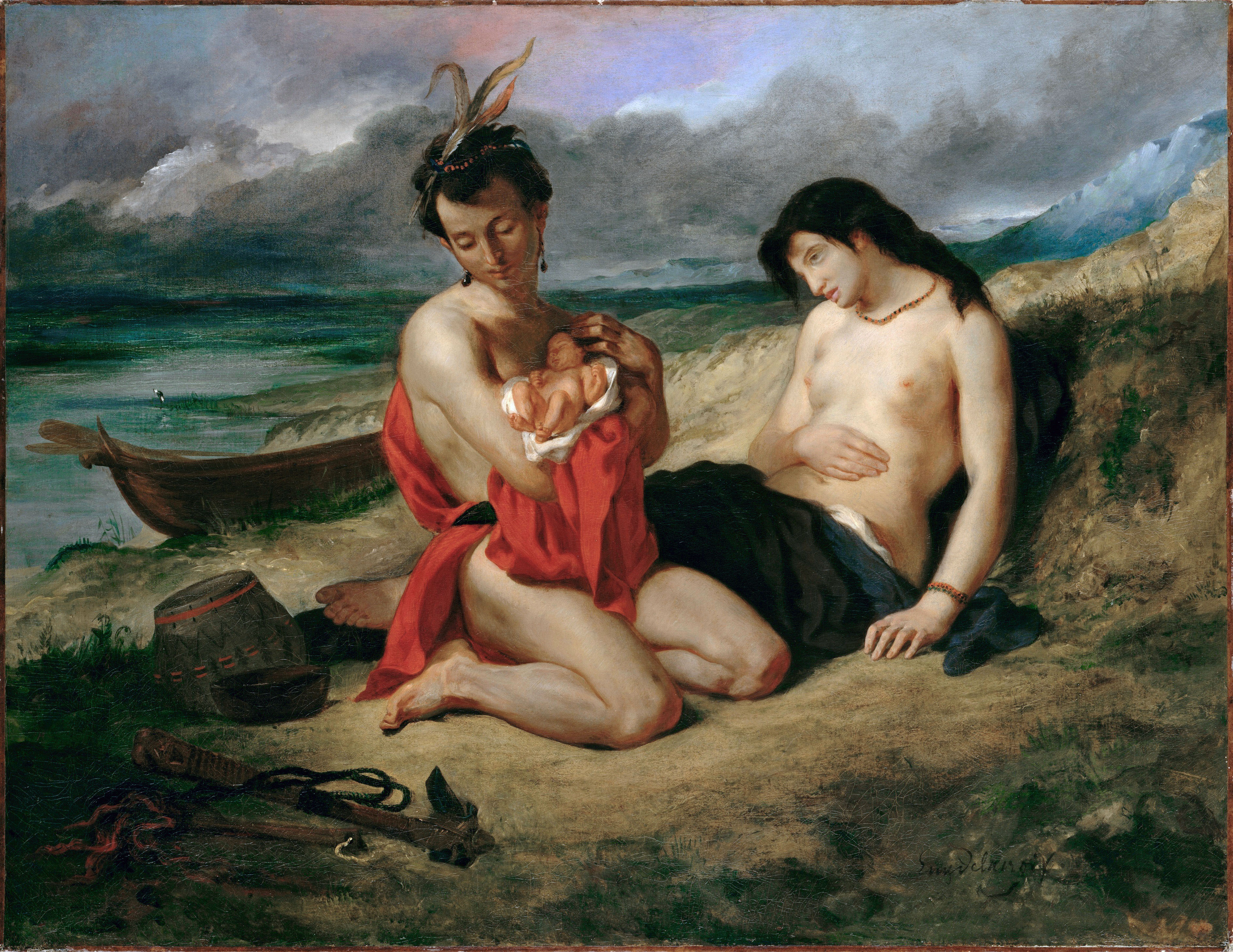 Depicts Natchez Native American mother and father with their newborn child on the banks of the Mississippi River. Inspired by 1801 novel "Atala" by Chateaubriand, the setting is in French Colonial Louisiana; the Natchez couple have recently escaped upriver from a massacre.[1] ↑ MET Museum